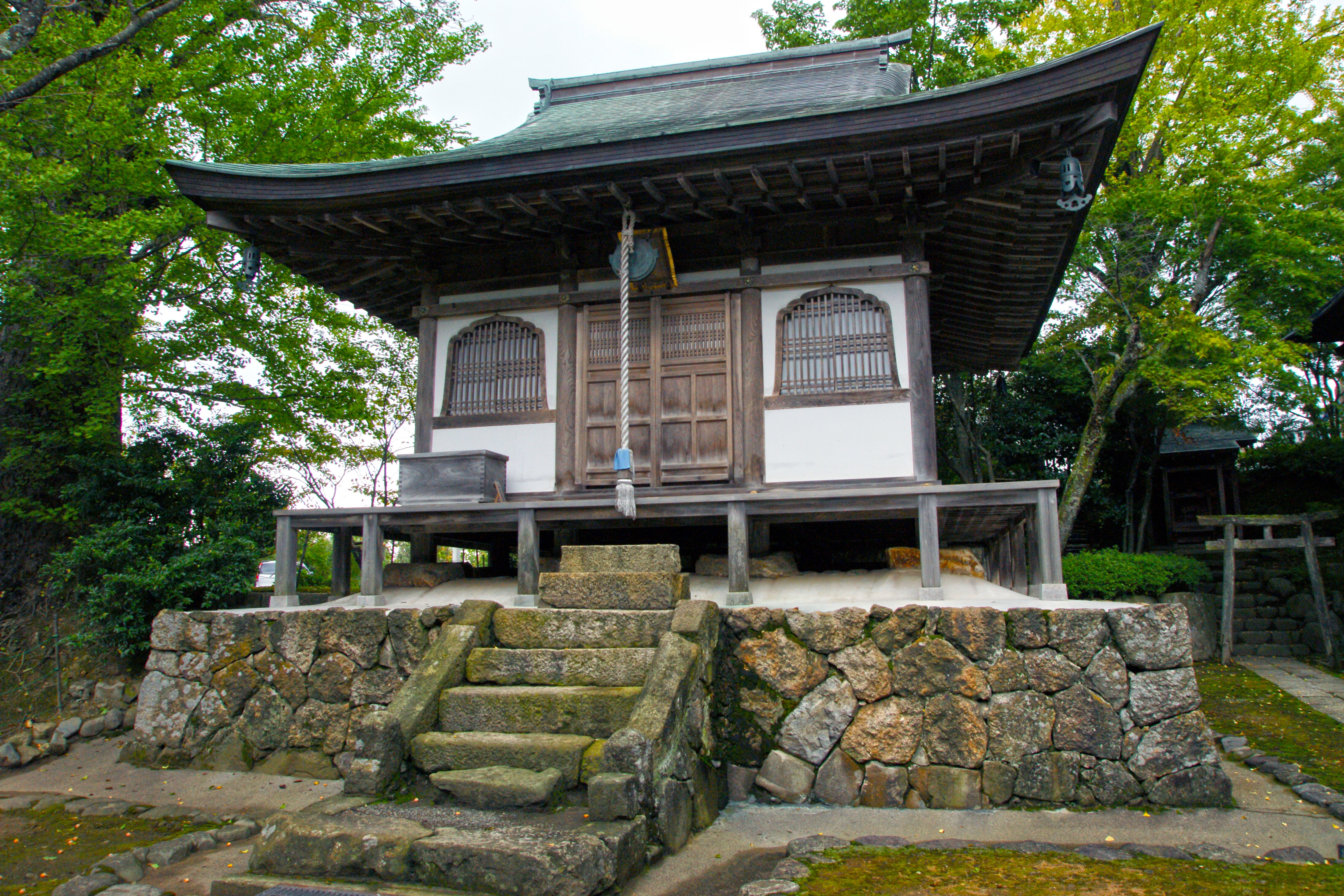 Daijoji in Kami, Hyogo prefecture, Japan